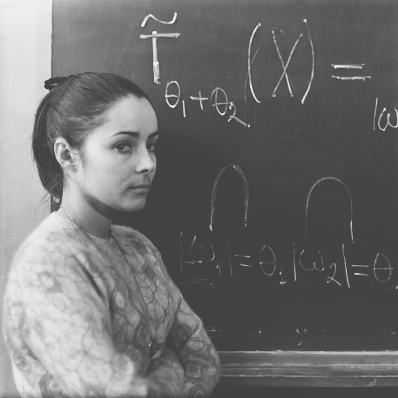 Maria Sagaidac - actress, mathematician, lecturer and teacher.